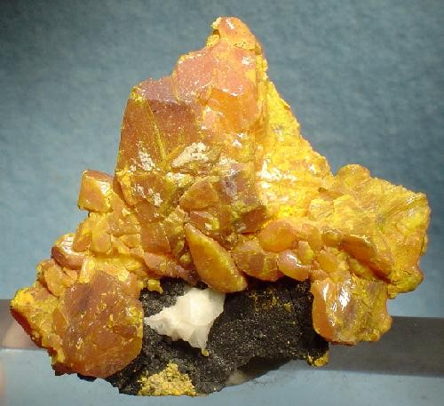 Orpiment Locality: Getchell Mine, Adam Peak, Potosi District, Humboldt County, Nevada, USA (Locality at ) Size: 5.2 x 4.5 x 2.0 cm. A showy specimen of sharp, terminated, yellow-orange orpiment crystals nicely set on a bit of matrix from the famous Getchell Mine of Nevada. A bit of contacting is not detracting, as you can see. Ex Ed Ruggiero Collection, who bought this piece from dealer Chris Wright in 1975.